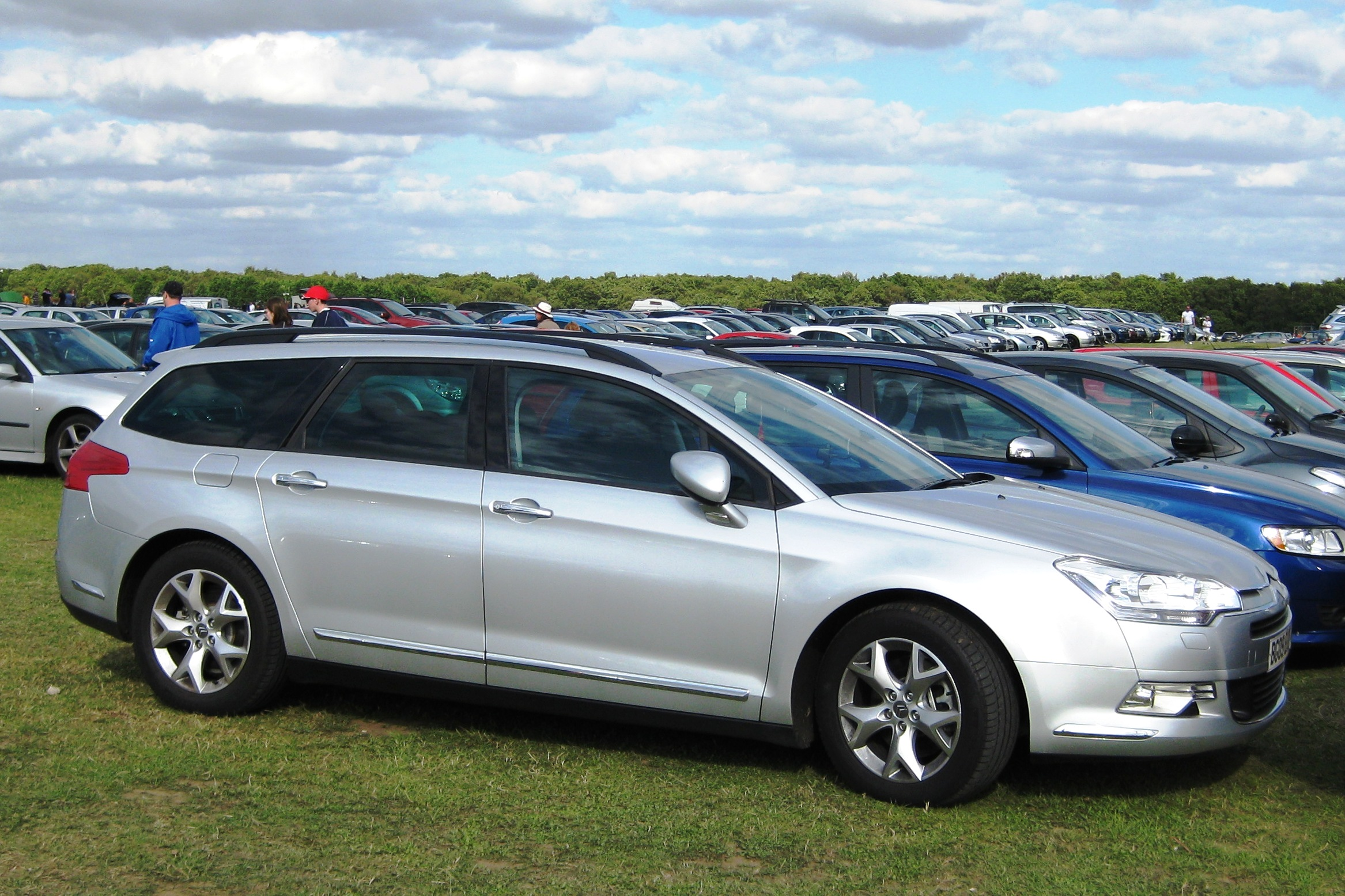 Citroen C5 Break